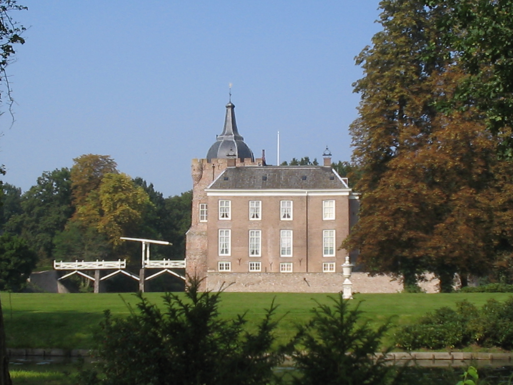 Heukelum, village with castle Netherlands